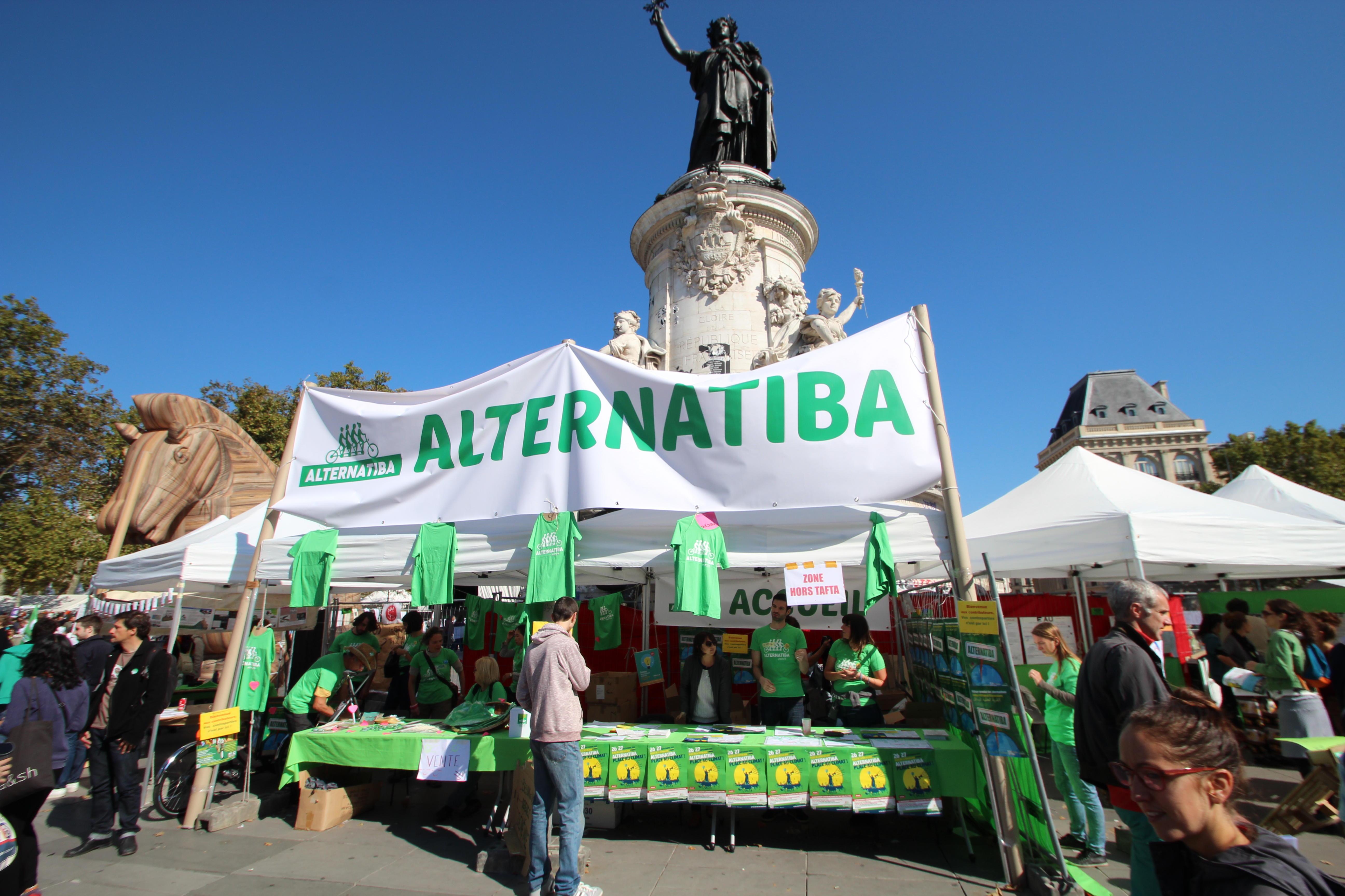 Alternatiba Paris 2015 is a citizen event offering local and concrete actions to tackle climate change held september, the 27th 2015 on the place de la République (Republic's place) in Paris, France. Object location48° 52′ 03.14″ N, 2° 21′ 50.36″ E